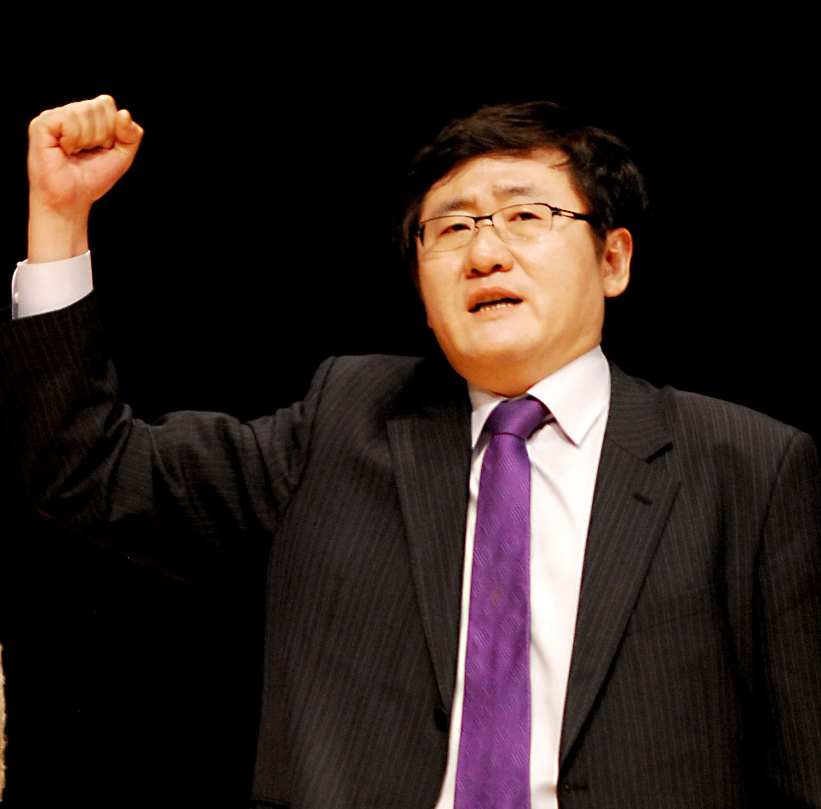 Geum min in the 16th Socialist Party Convention. (Platform for Comment)